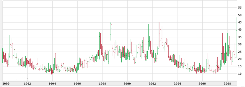 Candle chart of the VIX index, inception to October 2008